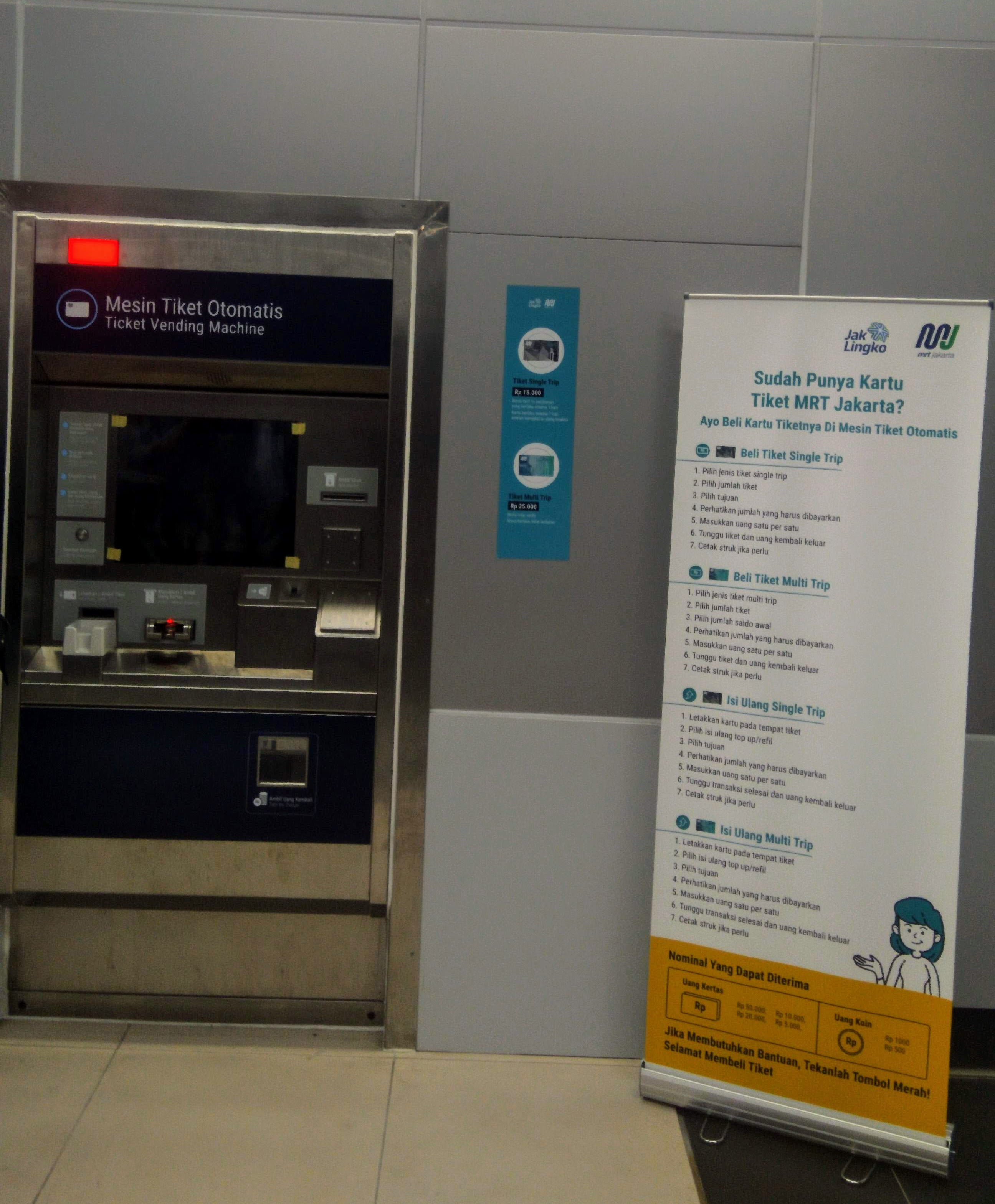 Jakarta MRT ticket vending machine in Bundaran HI MRT station